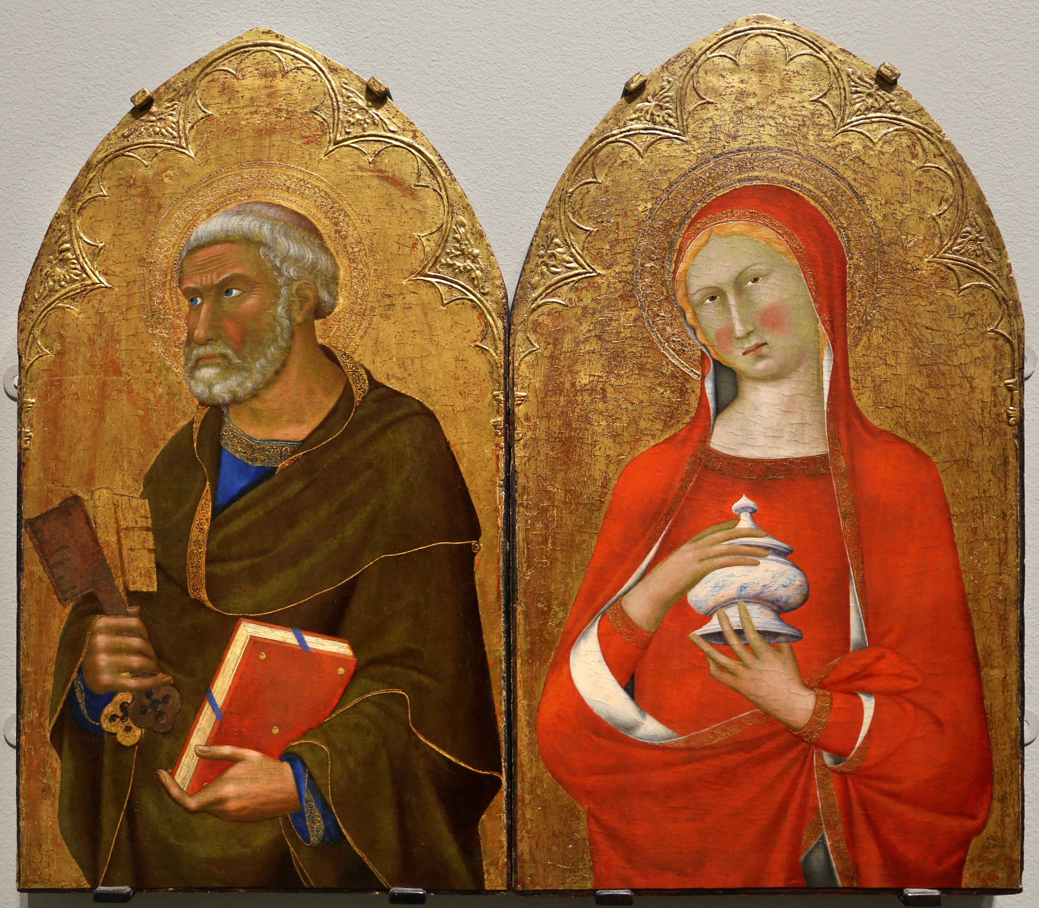 Italian Gothic paintings in the National Gallery, London